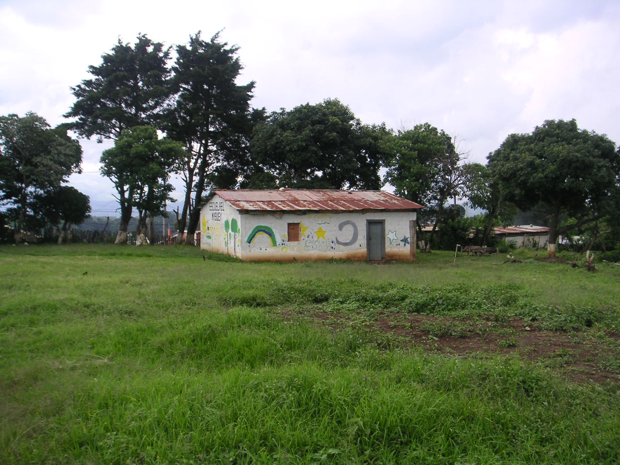 Guatemala. Community village school house in "El Maguëy", a large area of land occupied landless peasants. Photo: Soman